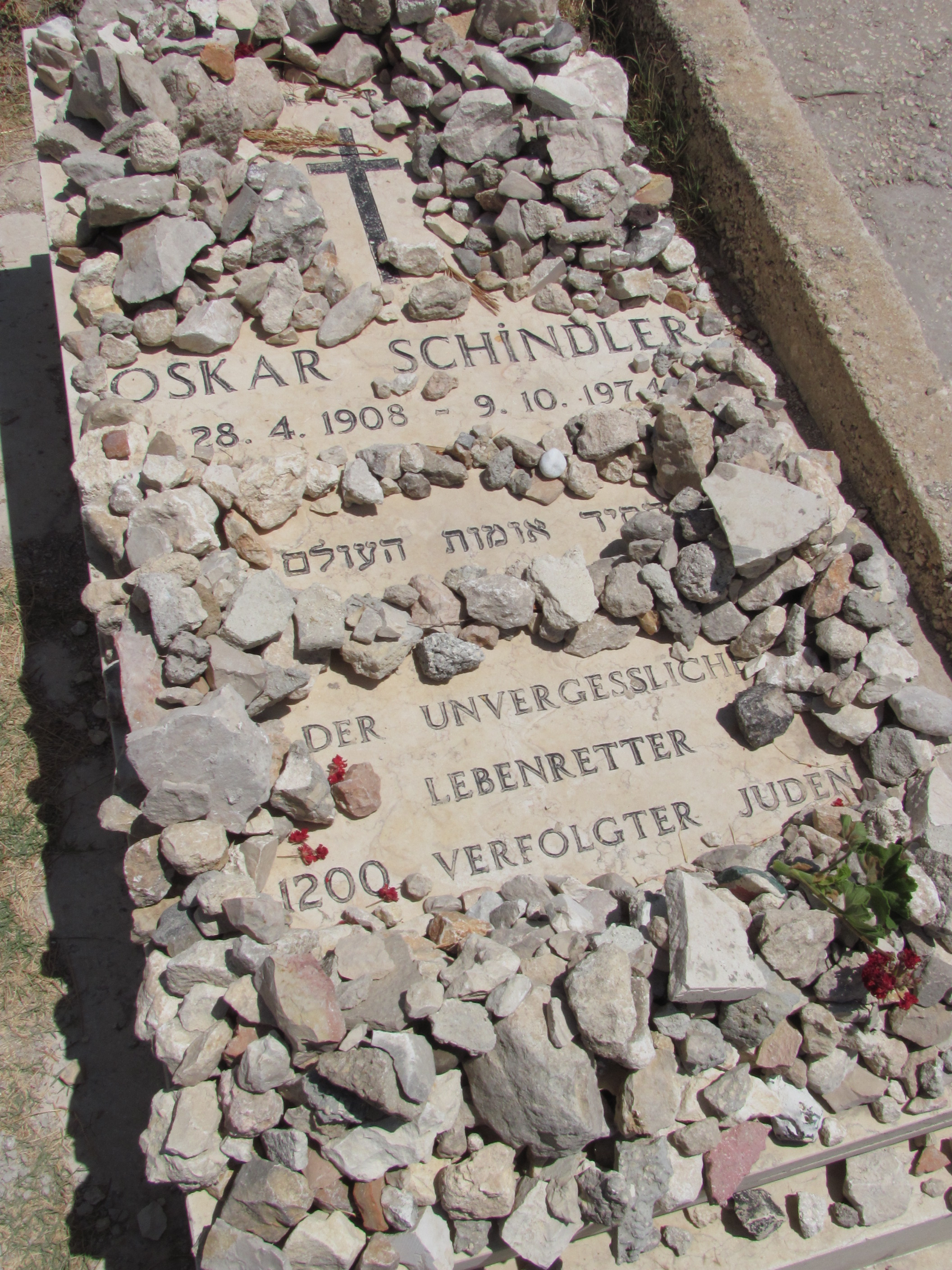 Close-up of grave of Oskar Schindler in the Mount Zion Franciscan Cemetery, Jerusalem, Israel. The German inscription reads: "Oskar Schindler, the unforgettable lifesaver of 1200 persecuted Jews." The Hebrew inscription reads: "Righteous Among the Nations"